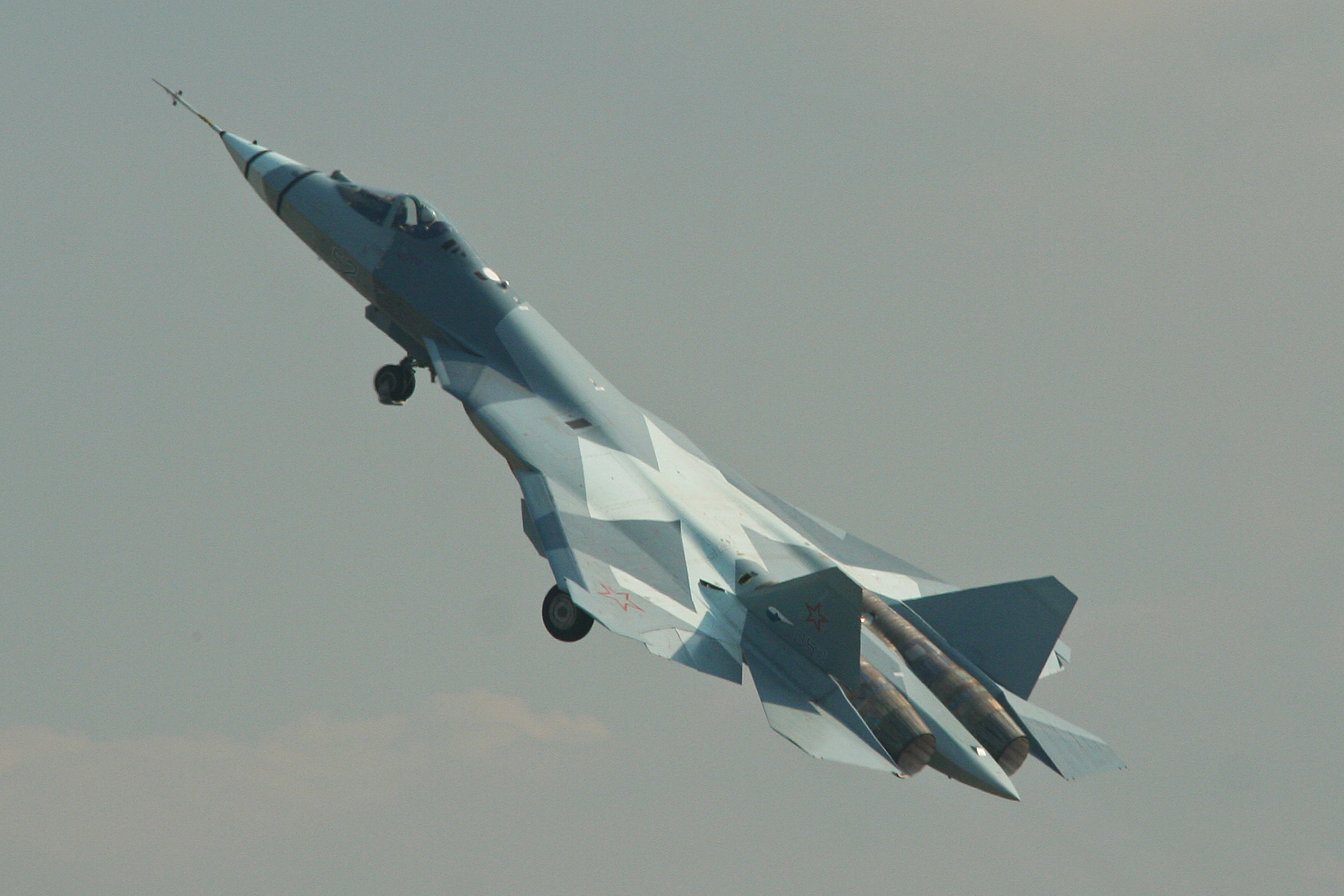 One of the many highlights of the 2012 Zhukovsky show was a display by the Sukhoi T-50, which was only the second ever public display by the type. The T-50 is a fifth generation fighter using stealth technology and is intended to replace the MiG-29 and Su-27 in Russian Air Force service. Seen here climbing out after take off, this is the second prototype aircraft and is c/n T.50-2. Russian Air Force 100th Anniversary Airshow. Zhukovsky, Russia. 12-8-2012